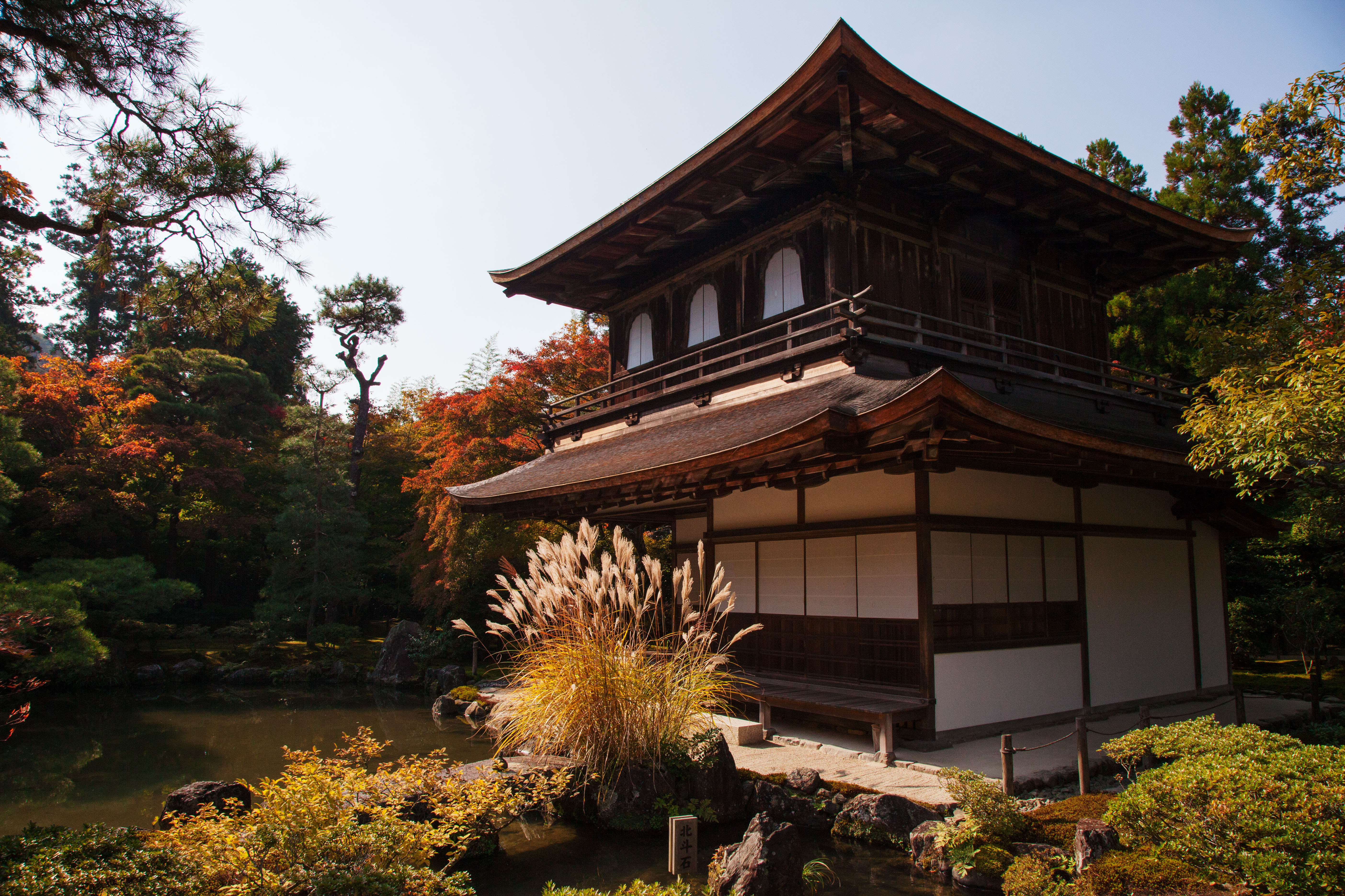 Ginkakuji, the "Temple of the Silver Pavillion" is the popular name for the temple formerly known as Jishōji. This temple has its origin in the elegant villa known as the Higashiyama-dono, the "Palace of the Eastern Mountains" established by the eighth Muromachi shōgun, Ashikaga Yoshimasa (1436-1490).The "silver pavilion" of Ginkaju-ji temple is the sedate, two-story Kannon Hall (designated as a National Treasure) on the far side of the raised sand gardens dominating the central court. Yoshimasa, a votary of both zen as well as the True Pure Land teachings, practiced meditation in the shoin-style room comprising of the lower story, which he named "Shinkuden" (Hall of the Emptied Mind). The upper story, which he named "Chōonkaku" (Sound-ofWaves Pavilion), holds a gilt image of Kannon, Goddess of Mercy.